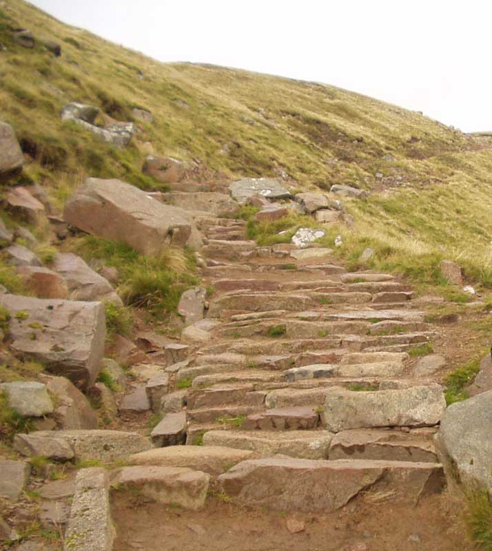 The 'Tourist route' for ascending Ben Nevis is relatively straightforward. On the 'Ben Path', steps are provided for some steeper sections.